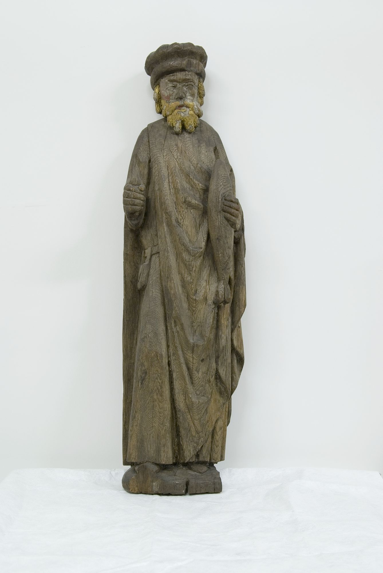 Late medieval wooden (oak) sculpture of Saint Botvid, originally in Orkesta Church, Sweden. One of five sculptures once found in an altarpiece. Donated to the Swedish History Museum in 1871. Today in the museum in Stockholm.